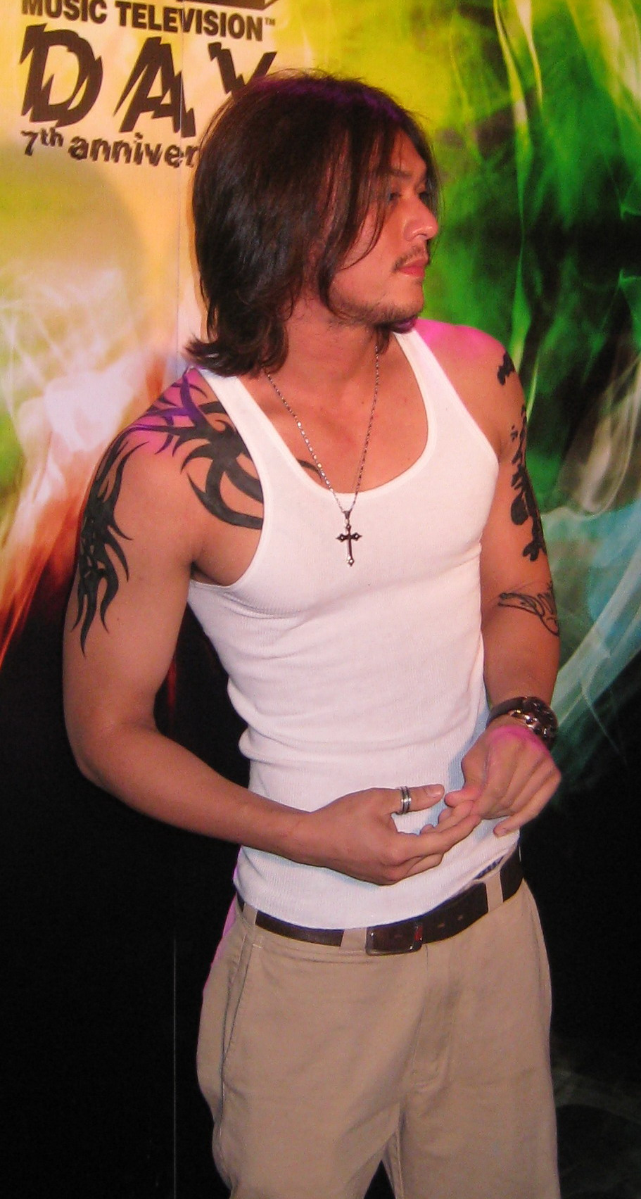 Nicky PIMP - Sura Teerakol at 7th anniversary of MTV Thailand